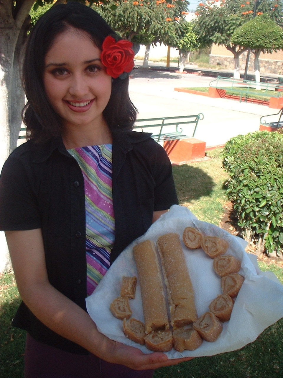 Rollos de Guayaba de Jaral del Progreso